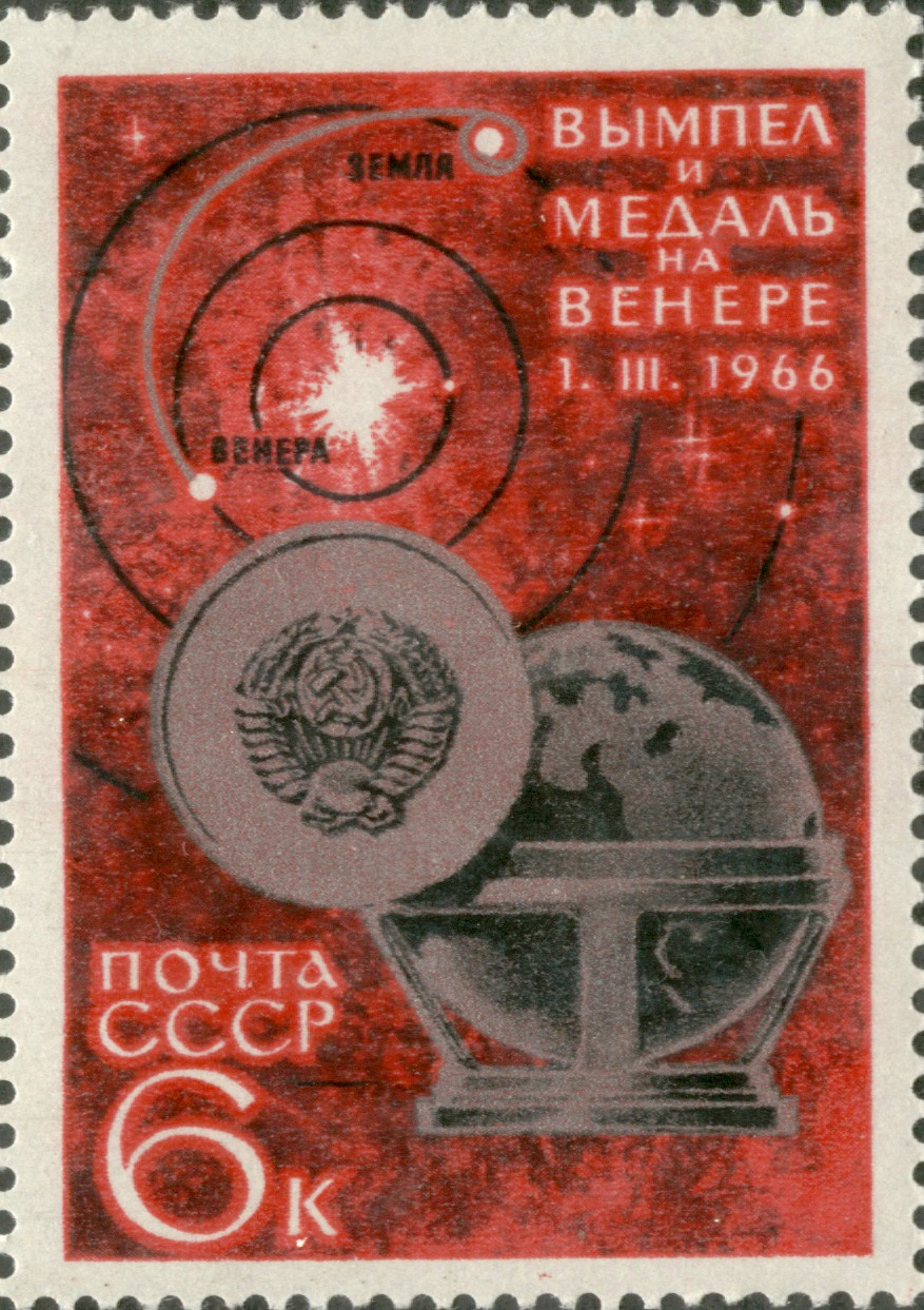 1966 Soviet Union 6 kopeks stamp. Venera 3 Pendant and Medal.